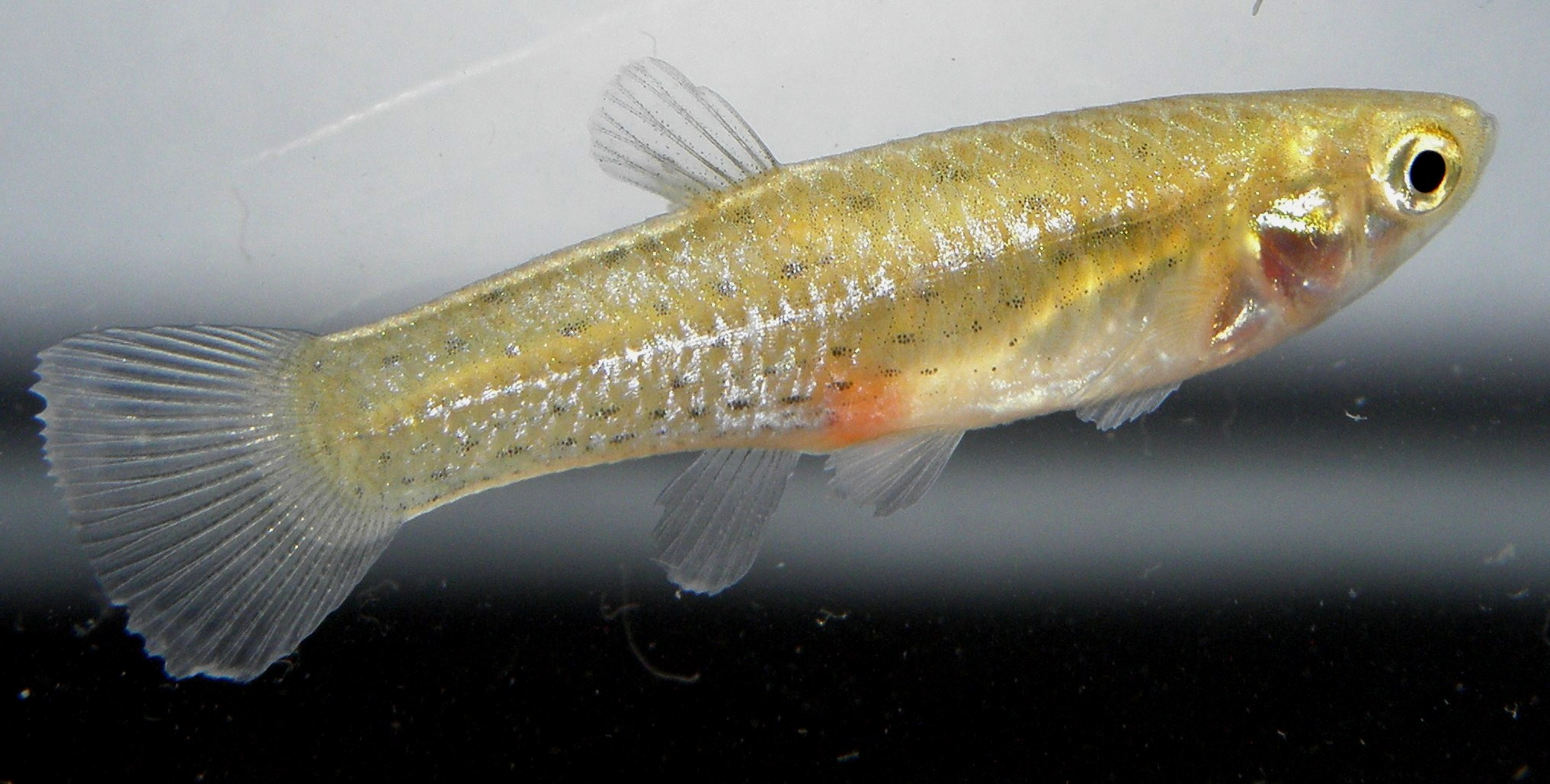 A female Onesided livebearer (Jenynsia multidentata).